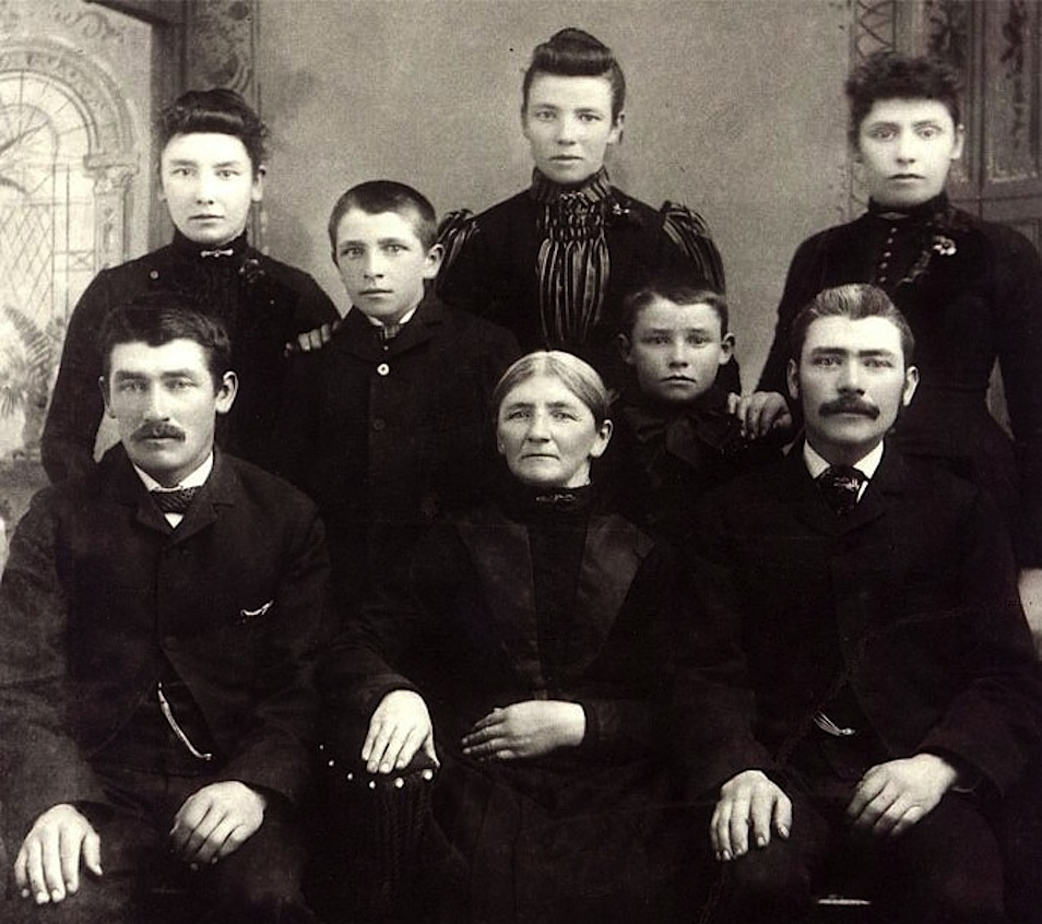 Duesenberg Family. Back (left to right): Lena, Minie and Amalia (Molly). Middle l-r: Fred and August. Front l-r: Conrad jr., Conradine (Mother) and Henry.